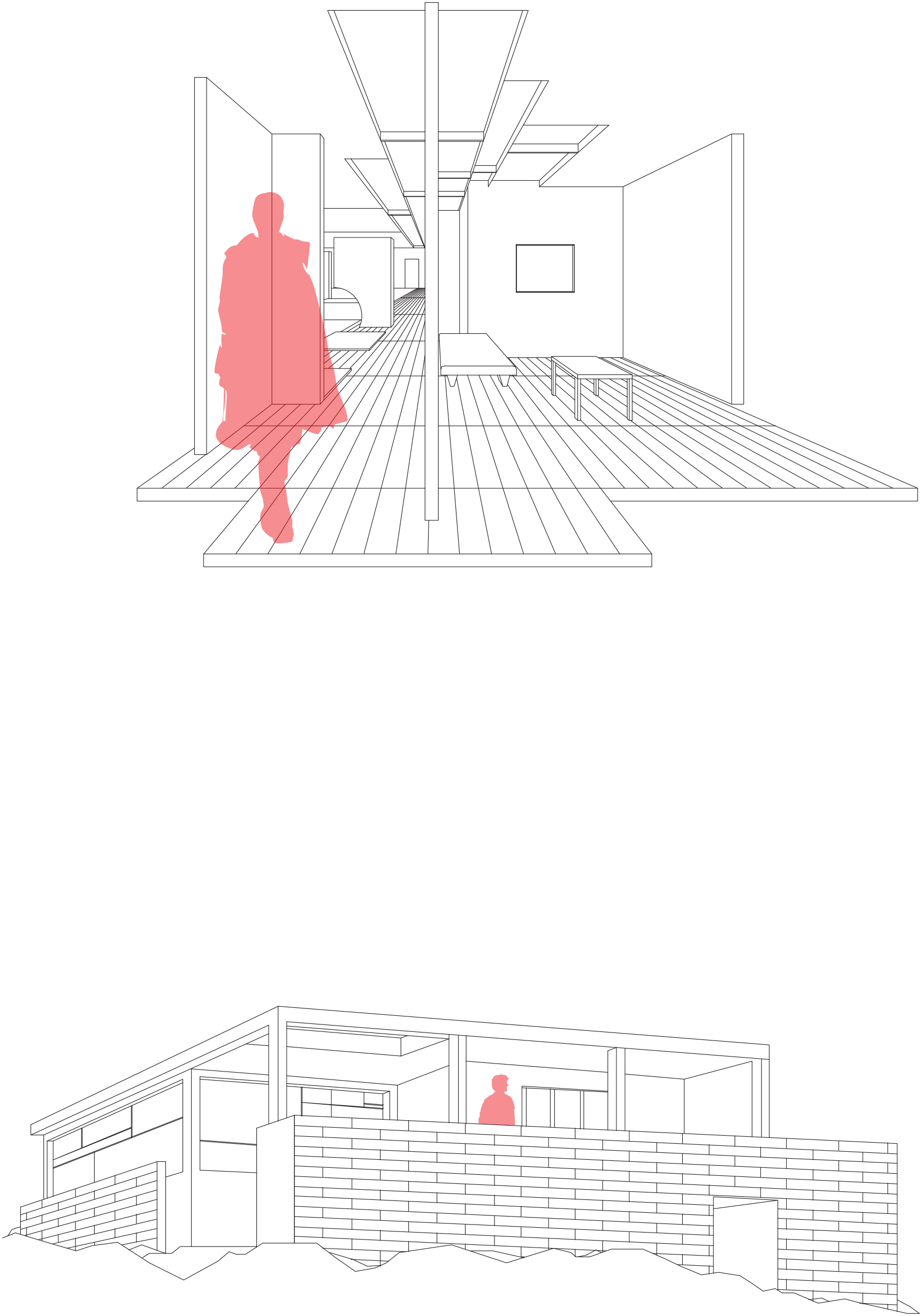 Sydney Ancher’s House III was constructed in 1957, along Sydney’s Bogota Ave. The two story dwelling is made up from a lower garage, and upper living quarters, with an open patio space. The interior space has varnished wooden flooring, and its most notable element, a lighting system designed by Ancher, made up from a series of different shaped rectangles covers much of the roof. The house was designed as a family home, with its large brick walls giving way to a large relatively wild garden.